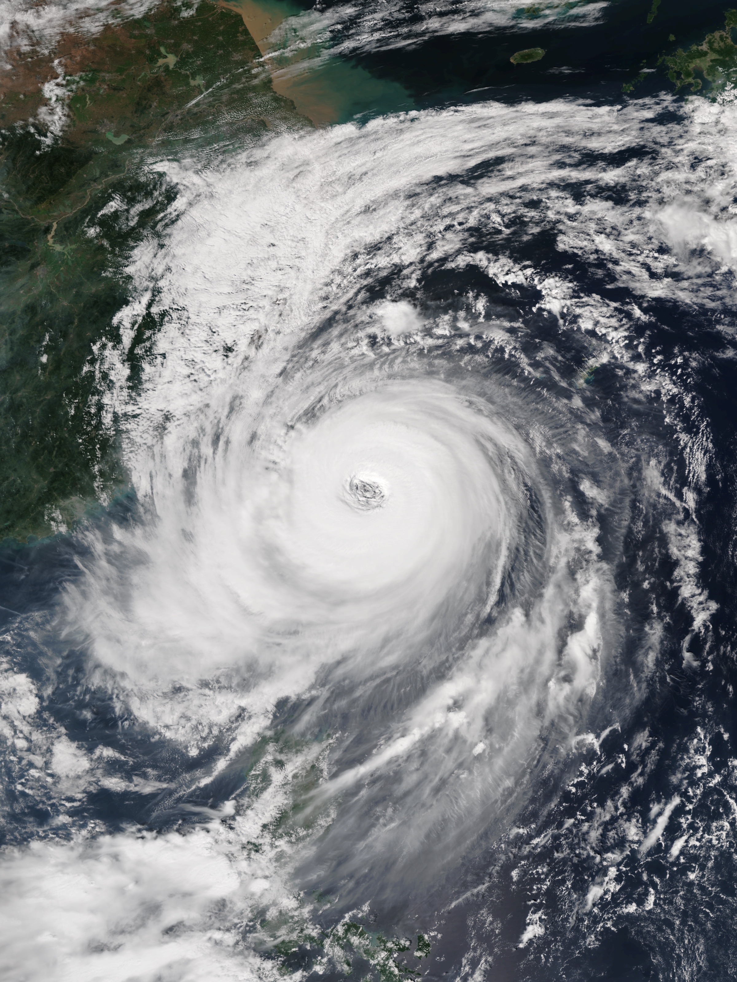 Typhoon Dujuan over the Yaeyama Islands and ready to make landfall over Taiwan on September 28, 2015.